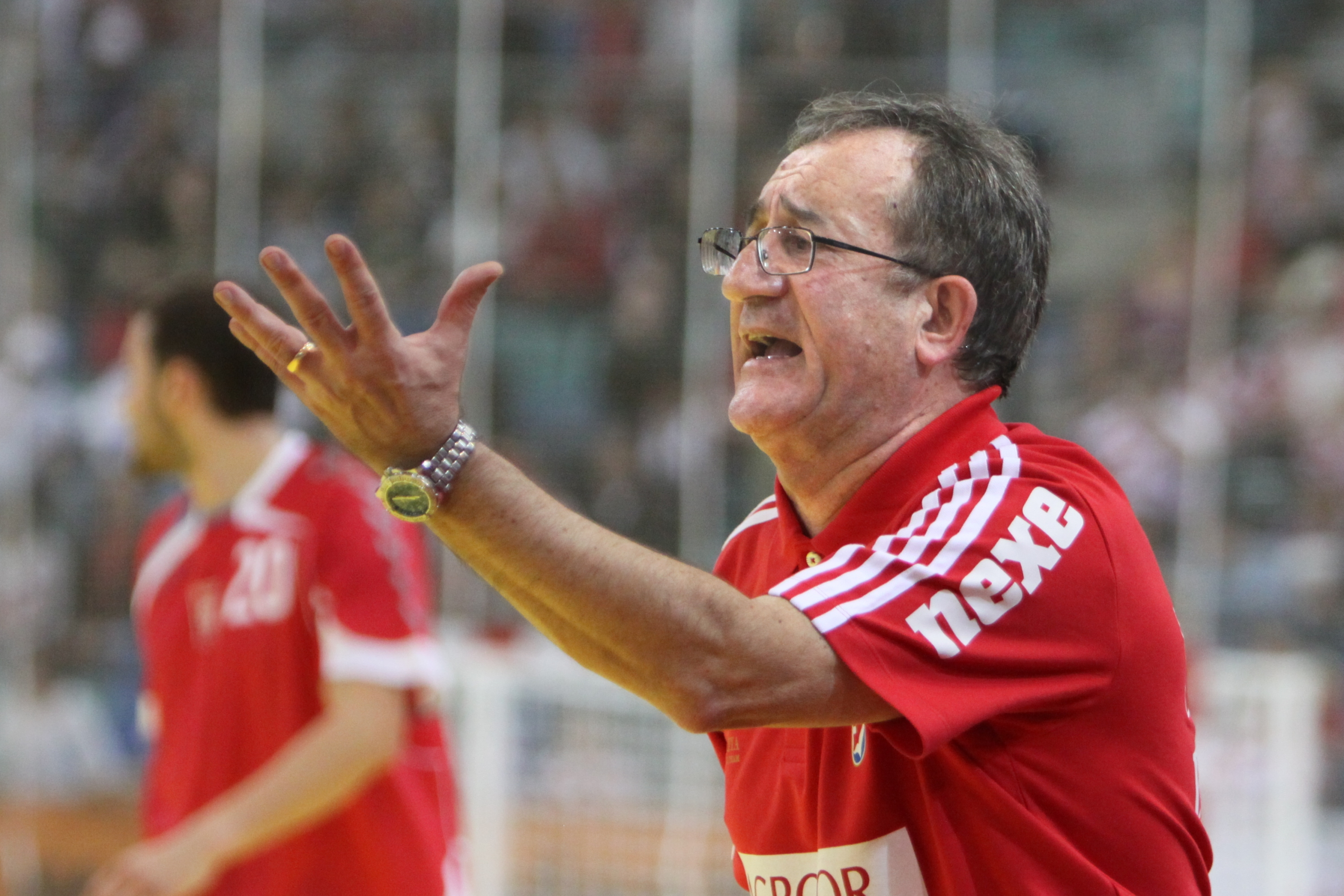 Lino Červar (Teamchef), Croatia national handball team